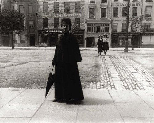 Cork, Ireland